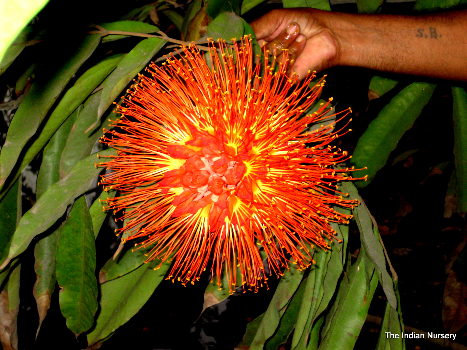 Brownea grandiceps flower in full bloom @ The Indian Nursery